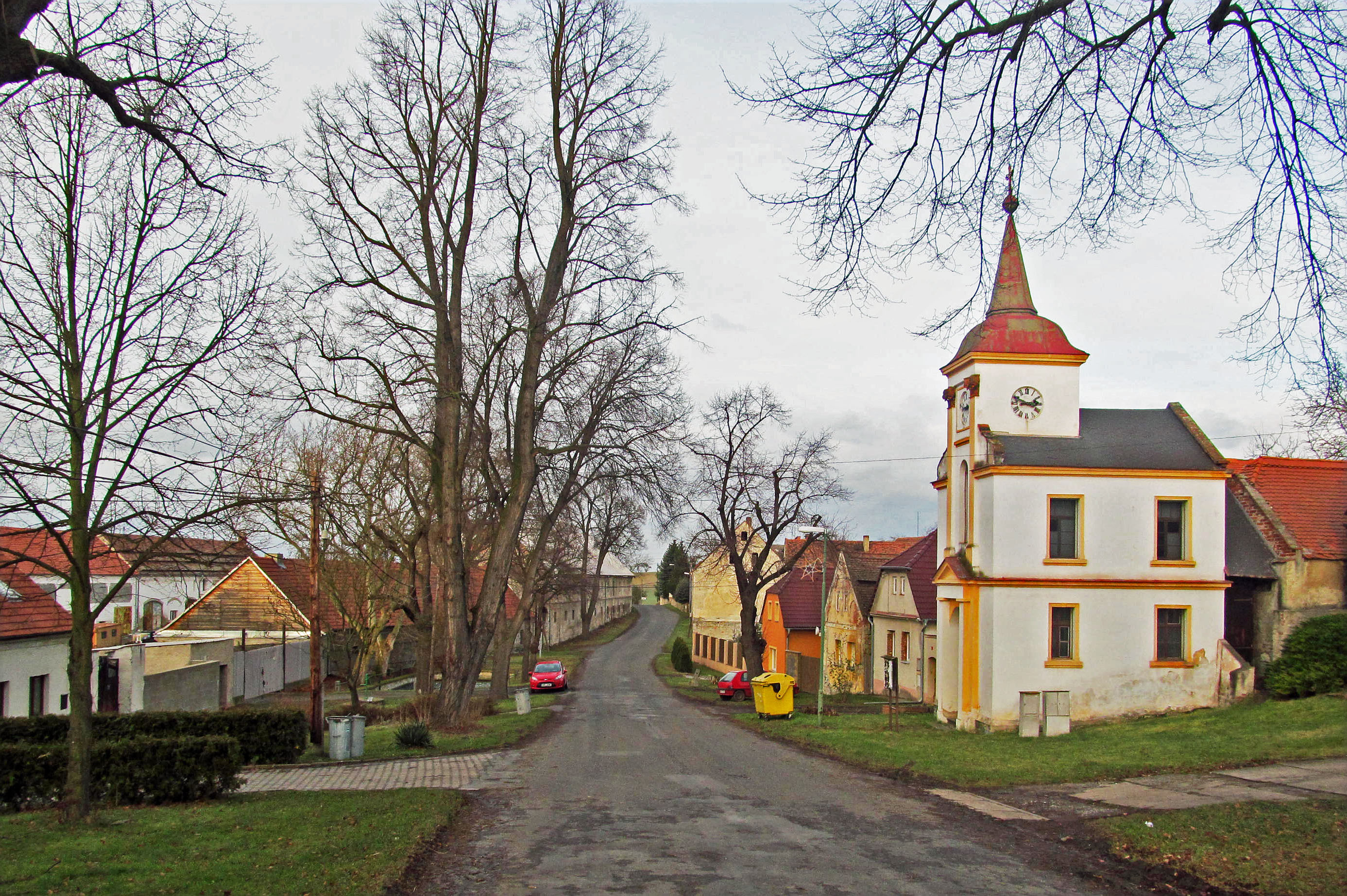 Village square in Dubčany